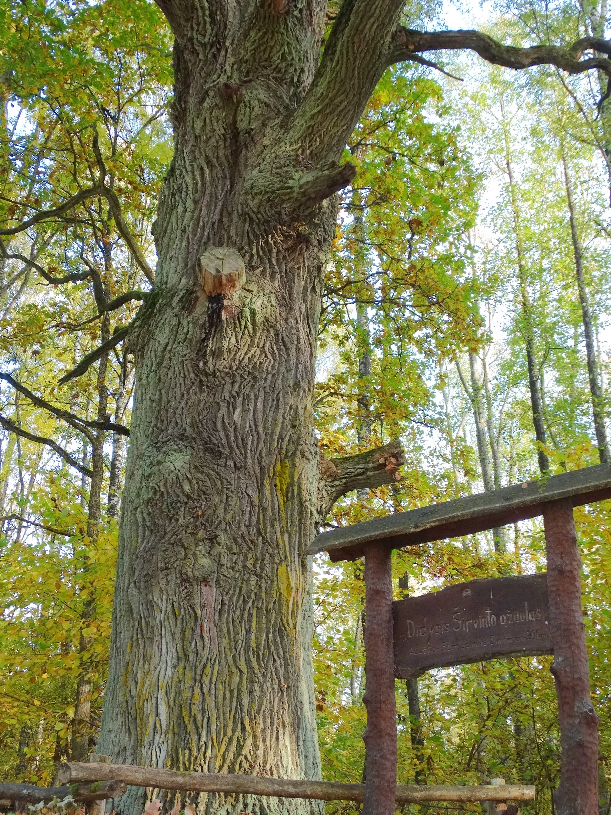 Didysis Širvinto Oak, Lazdijai district, Lithuania